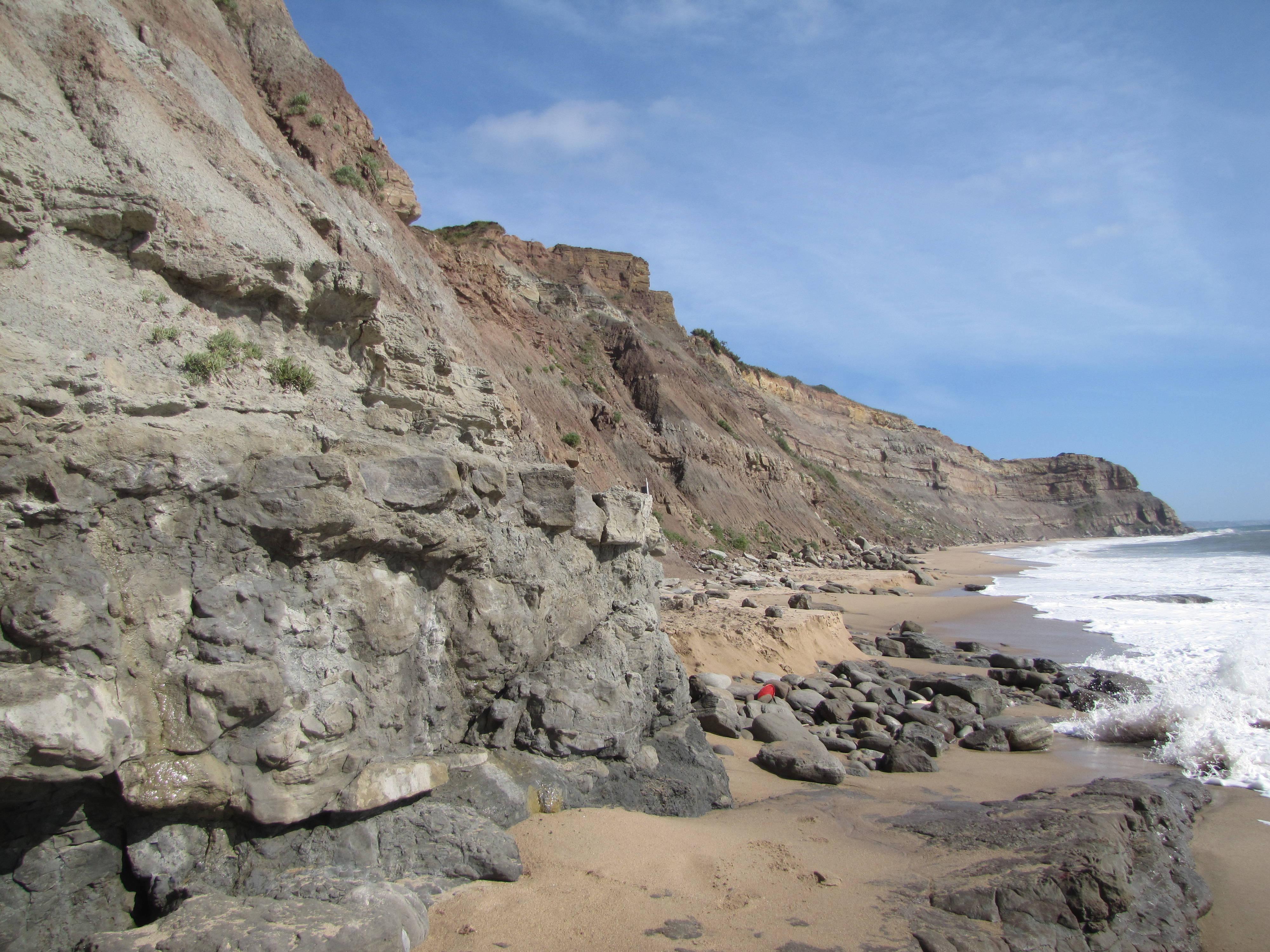 View on the Lourinhã Formation, Portugal.